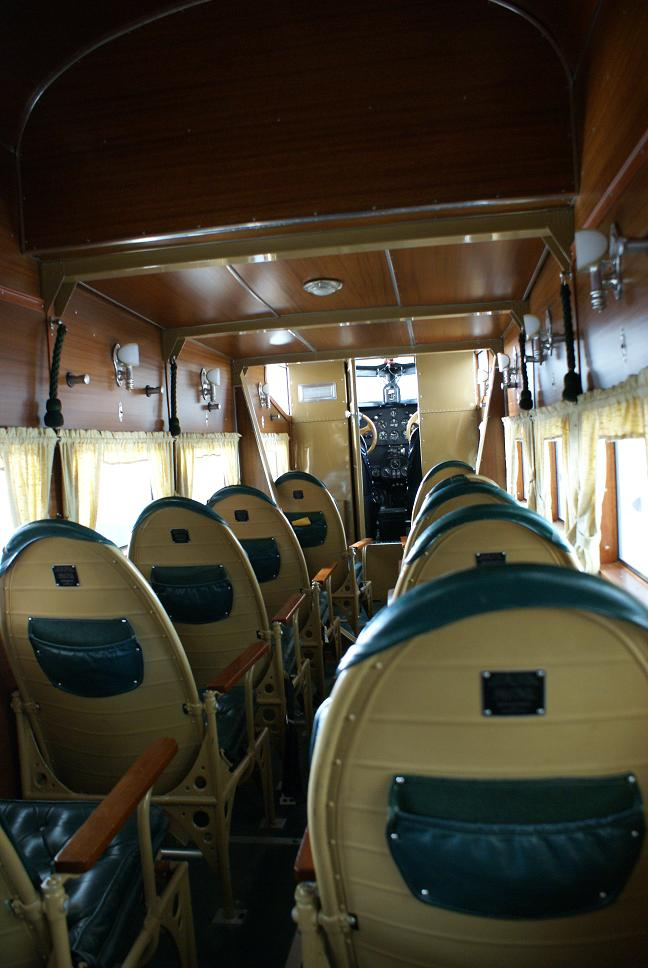 Interior of the Ford Trimotor N9645 model type 5-AT-B, located at the Evergreen Aviation Museum in McMinnville, Oregon.